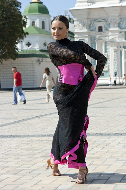 Liliia Podkopaieva, twice Olympic champion